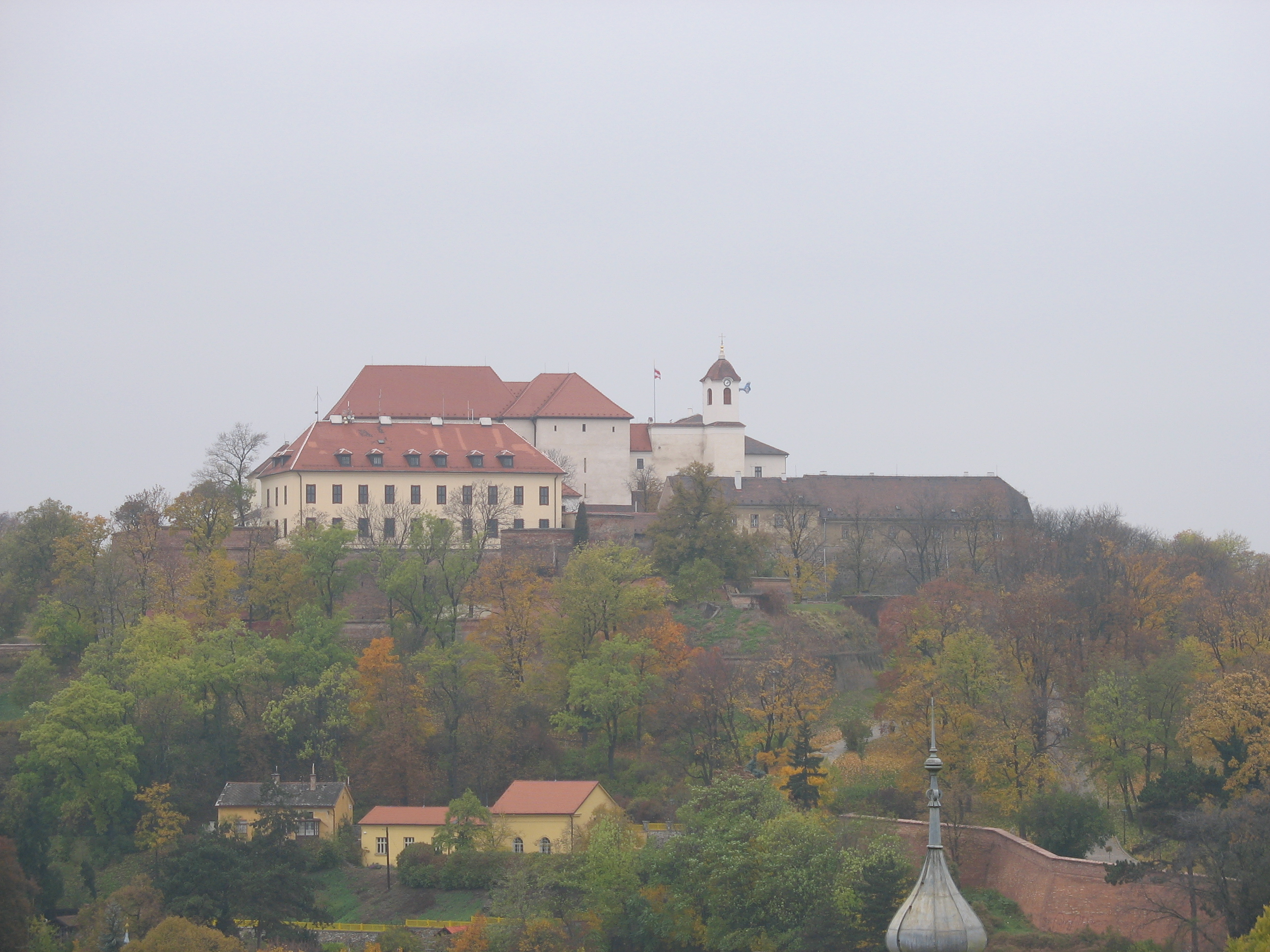 A Špilberk Castle